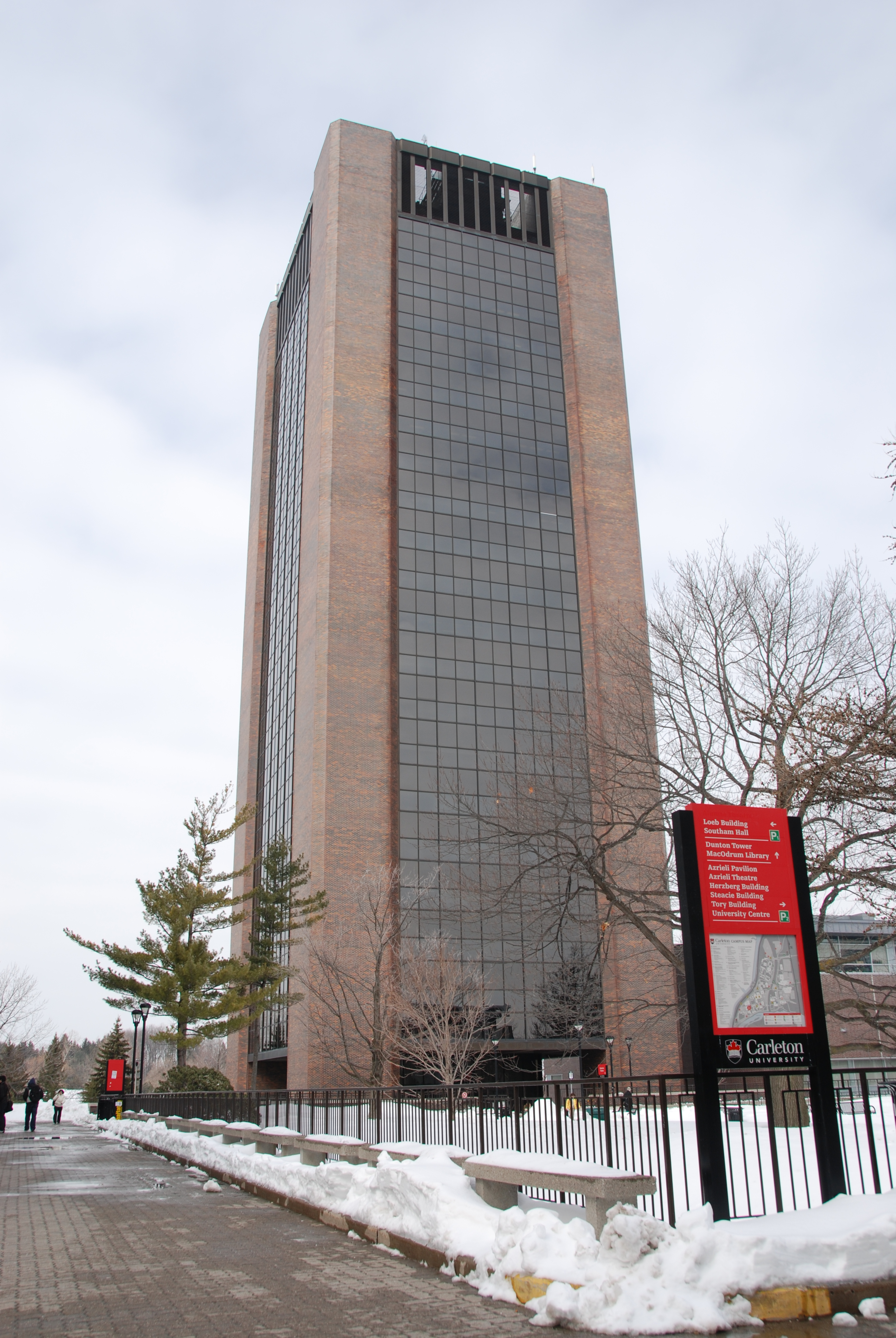 Photograph of Dunton Tower from the southeast, taken March 11, 2008.